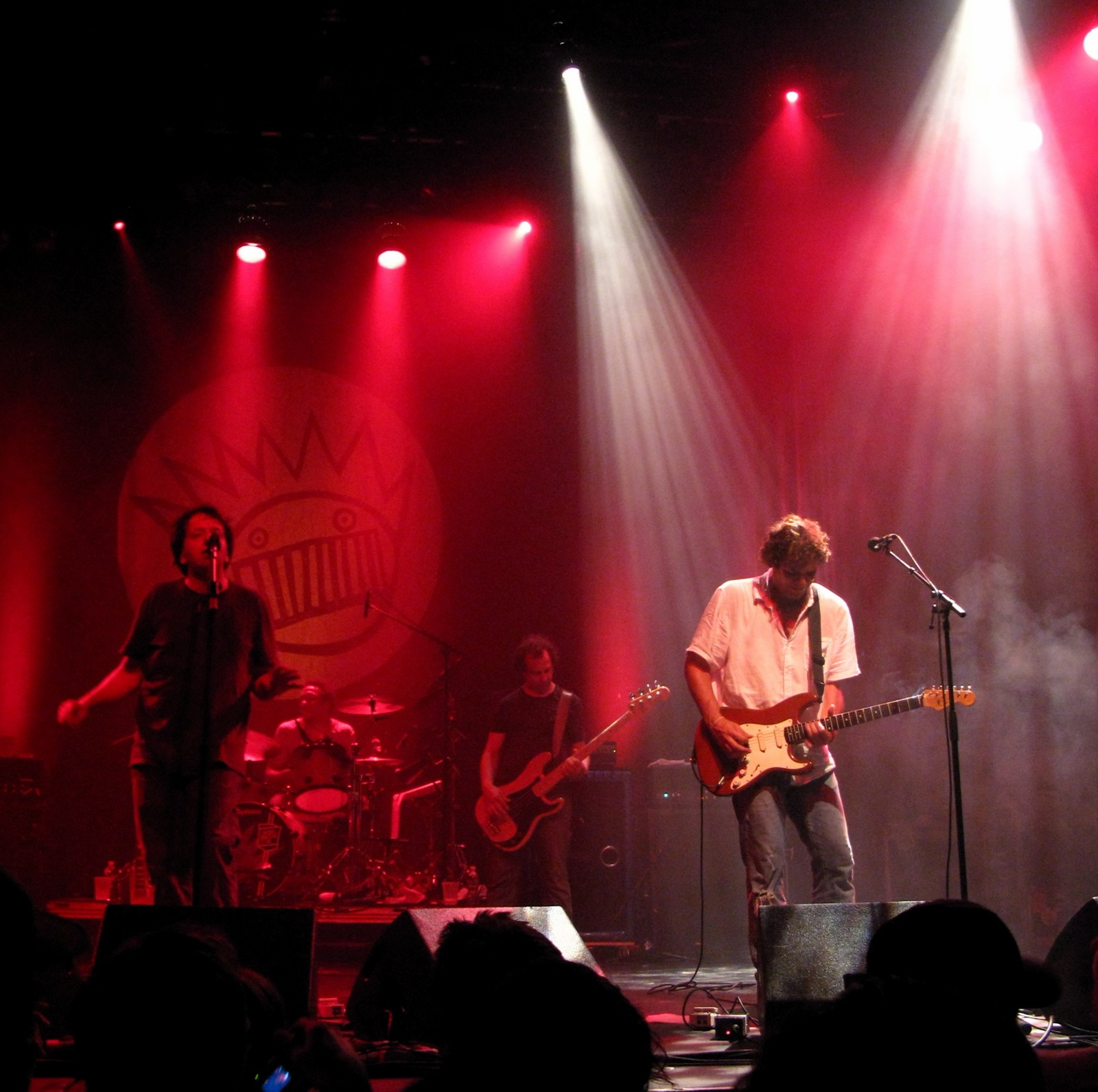 WEEN-Metropolis, Montreal. June 9, 2007 Canon G7